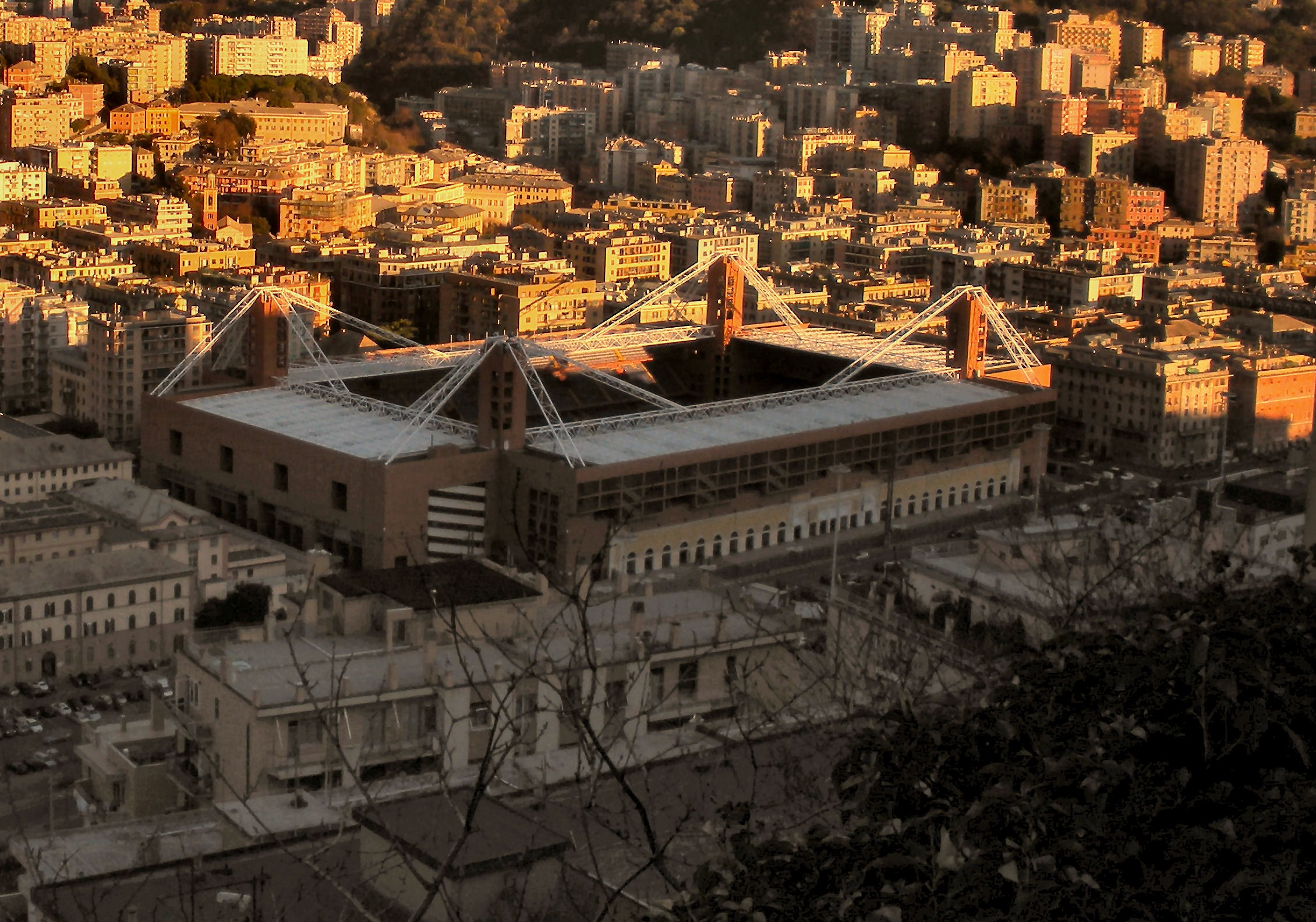 Genoa (Italy), view of the quarter of Marassi from S. Bartolomeo walls